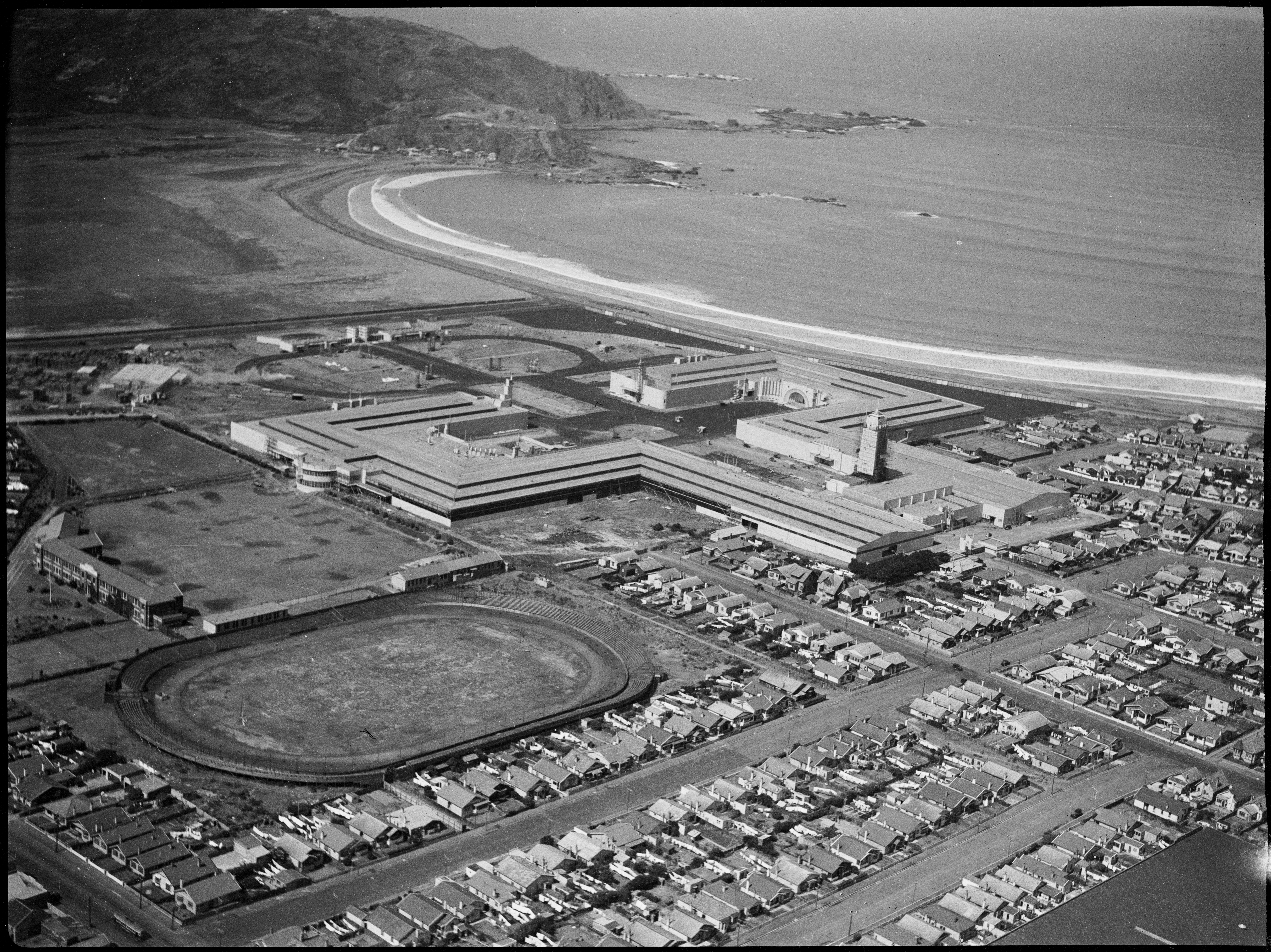 Aerial view of Rongotai, Wellington, including buildings for the New Zealand Centennial Exhibition, 1939 Reference Number: 1/4-019697-F Photographer: William Hall Raine Film negative Photographic Archive, Alexander Turnbull Library Image information at National Library website